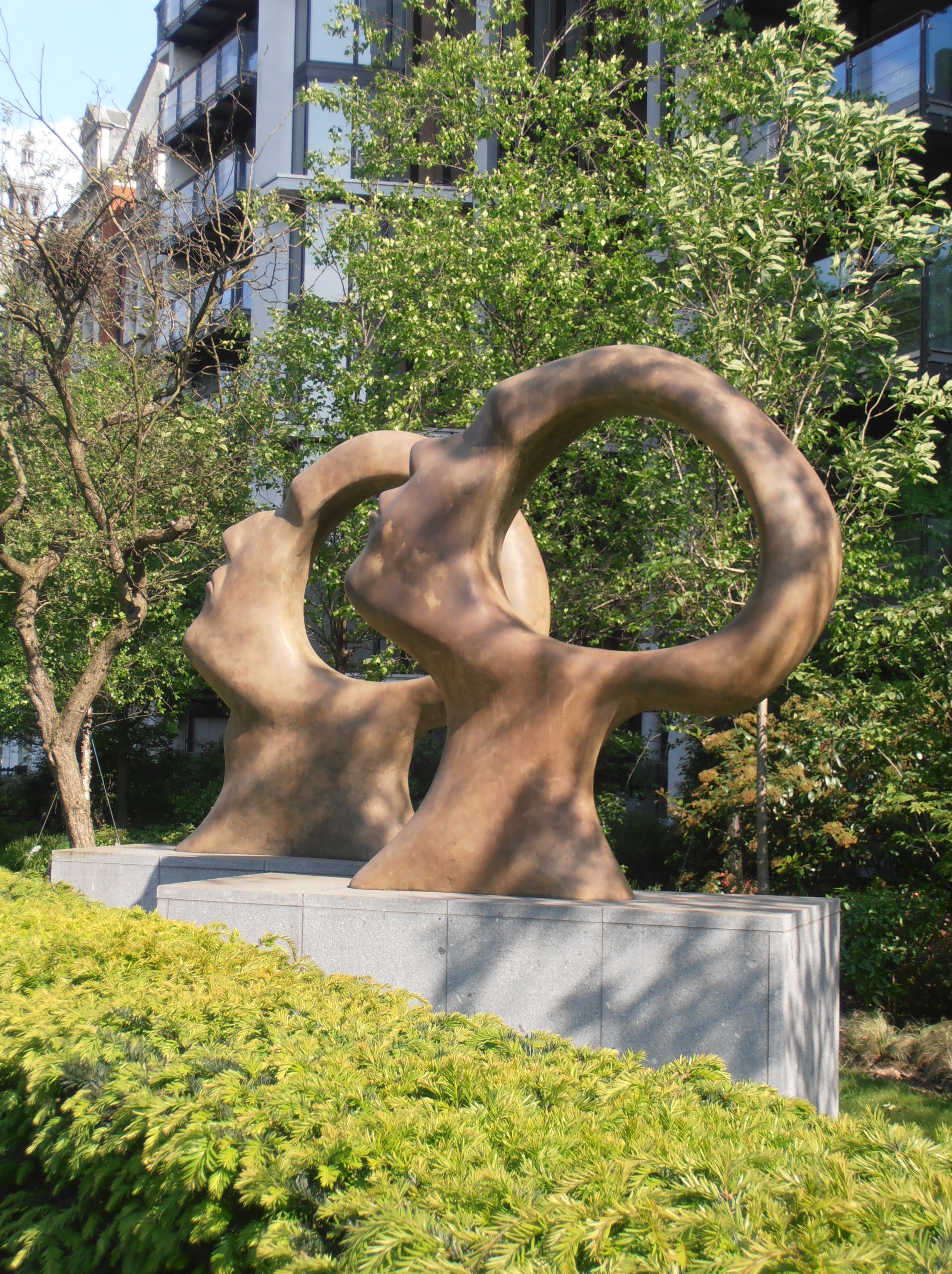 Search for Enlightenment (2011) by Simon Gudgeon, One Hyde Park, London SW1. The making of this file was supported by Wikimedia UK.